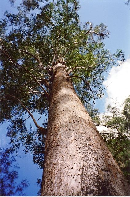 60 metre tall Eucalyptus pilularis, Middle_Ridge_Road Juugawaarri Nature Reserve, near New England National Park